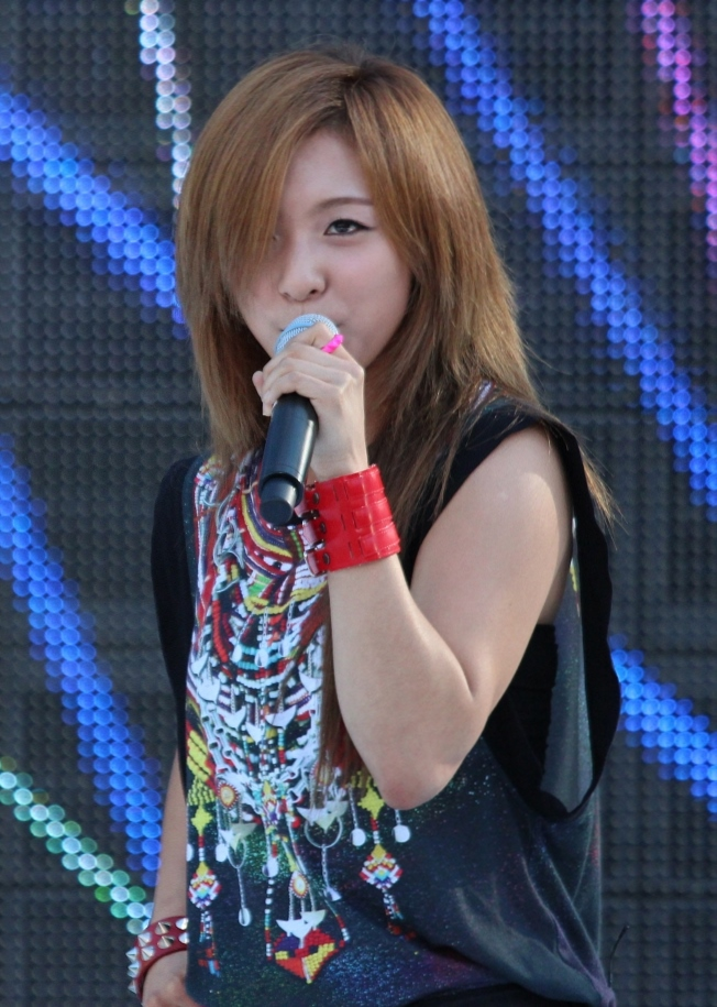 Luna at the M Super Concert on July 28, 2012.